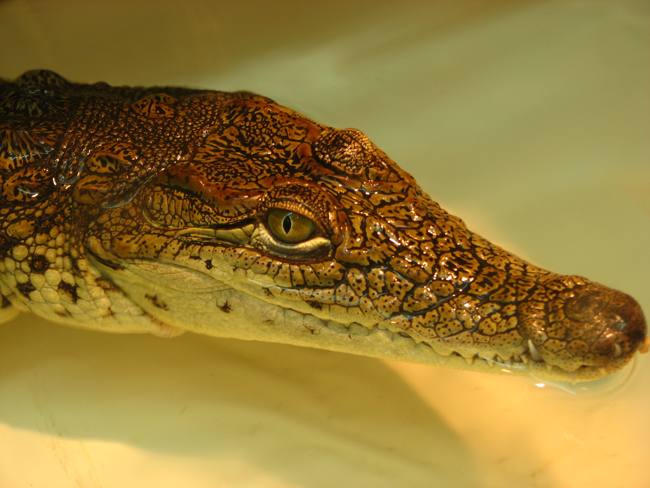 Nile crocodile